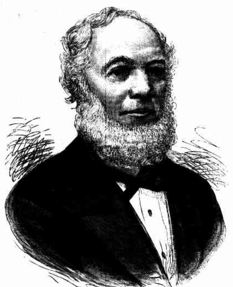 Samuel Deane Gordon, owner of Gladswood House, Double Bay, NSW